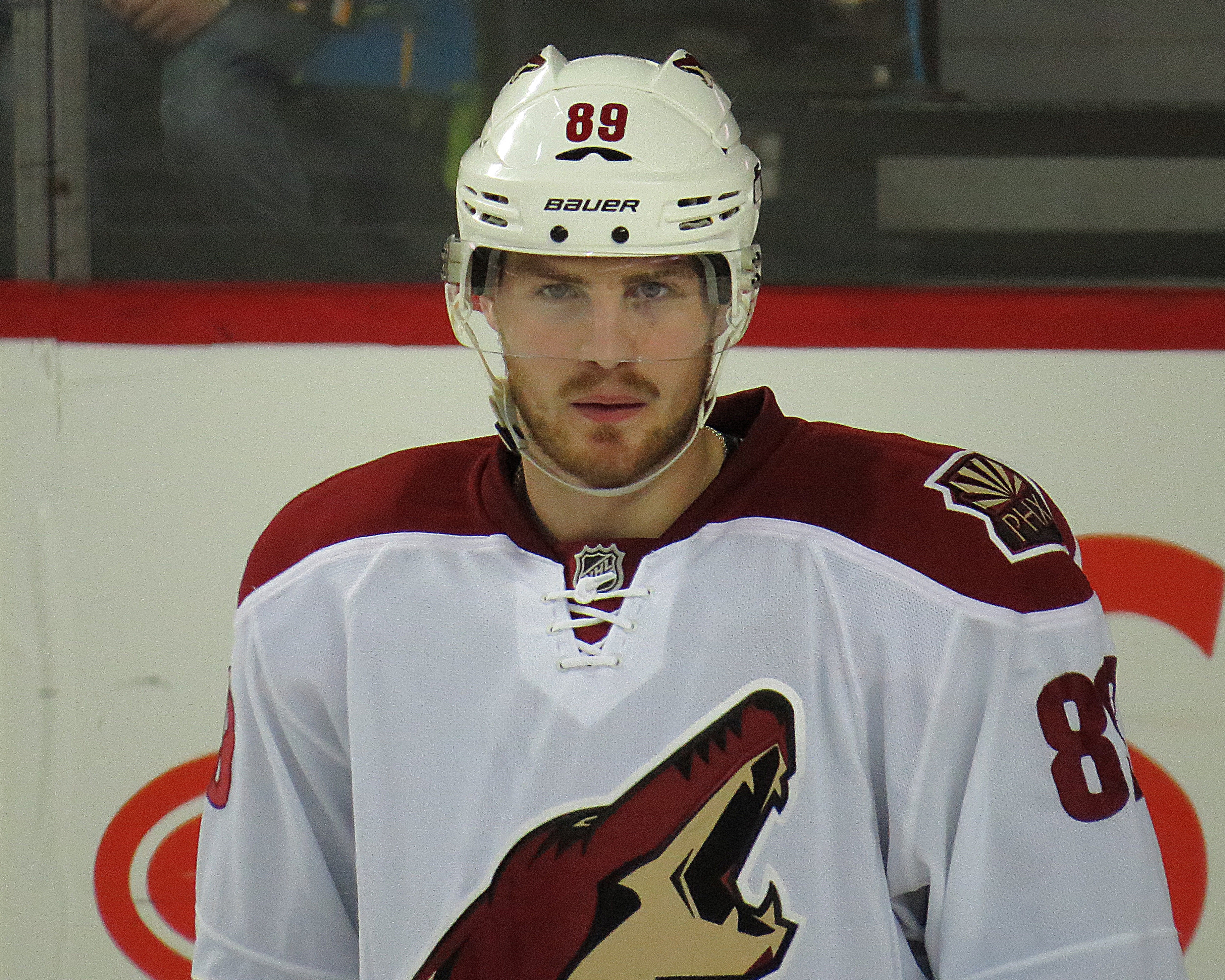 Mikkel Boedker with the Phoenix Coyotes during the 2013-14 season.